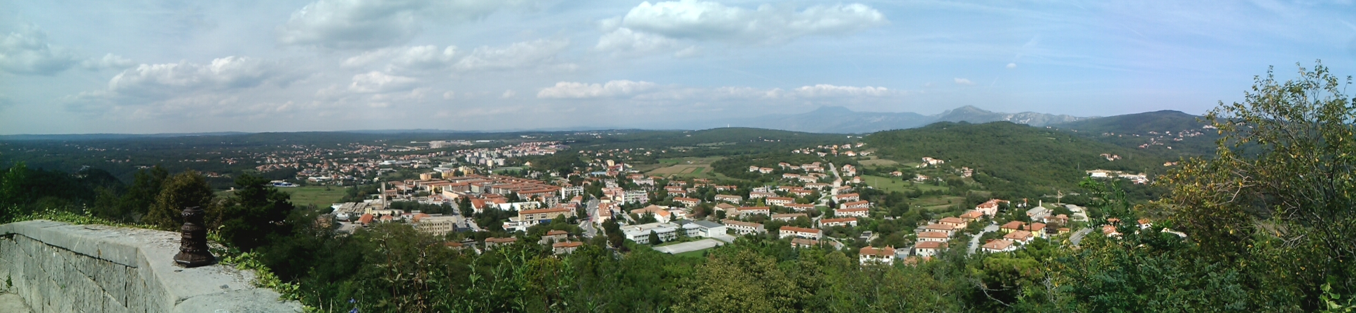 Panorama photo of Labin